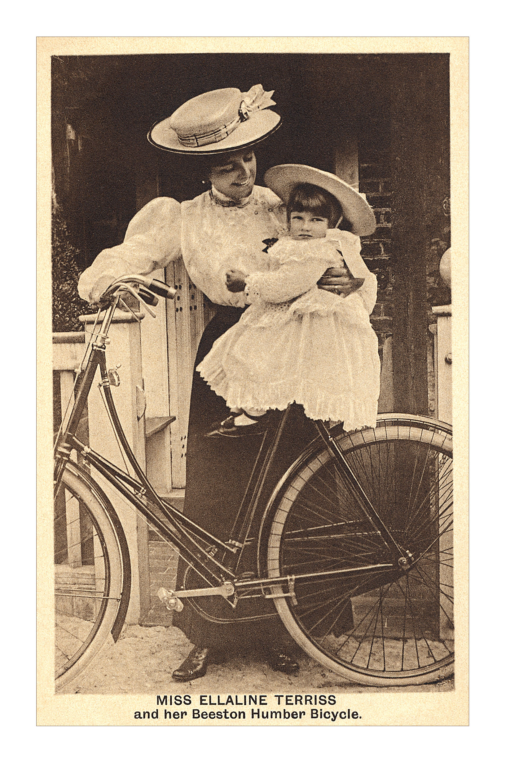 1907 Humber Bicycles postcard depicting Elaine Terriss